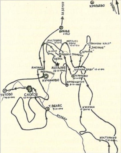 Battle front of the 3rd Macedonian partisan brigade